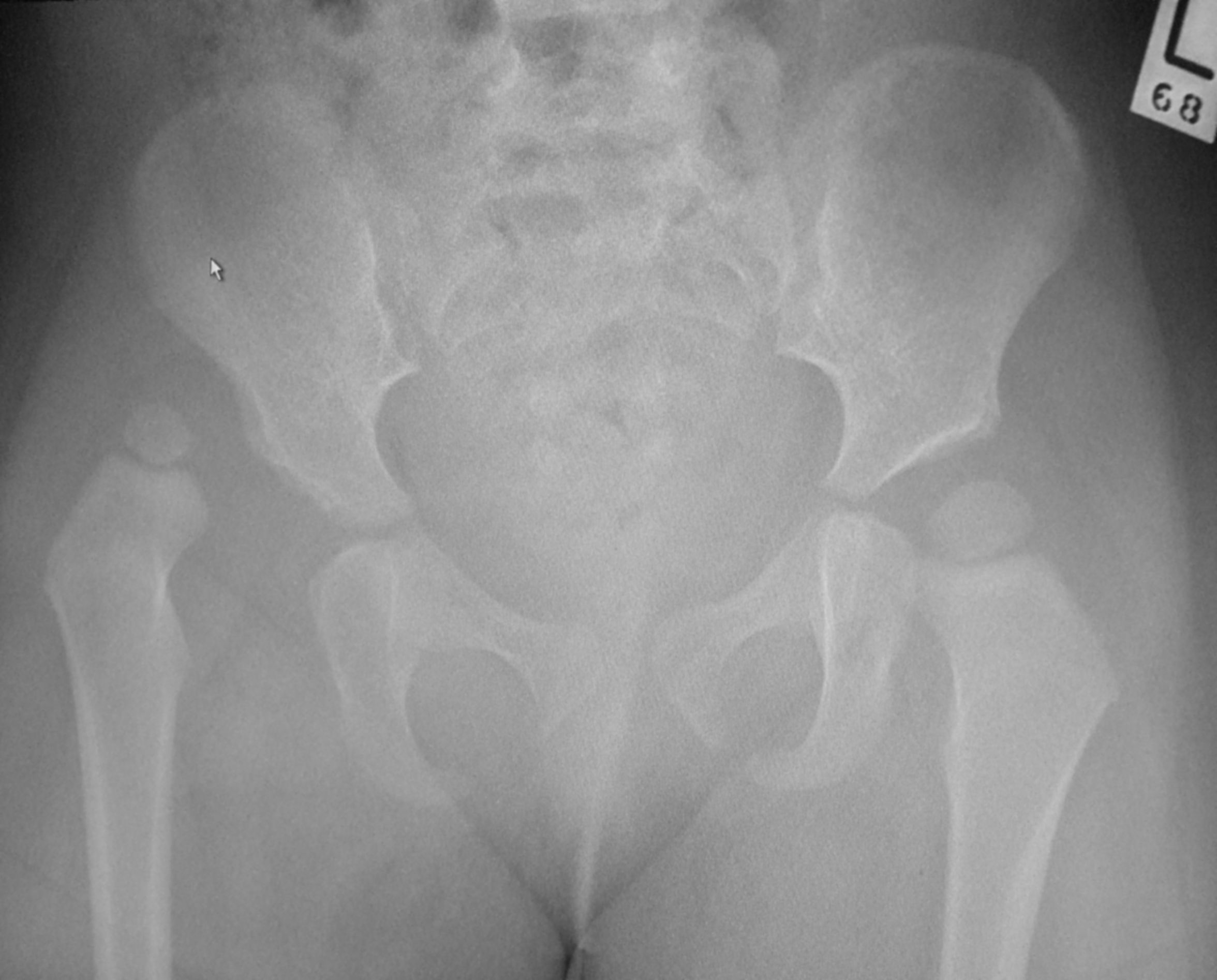 X-ray showing a dislocated right hip of a child